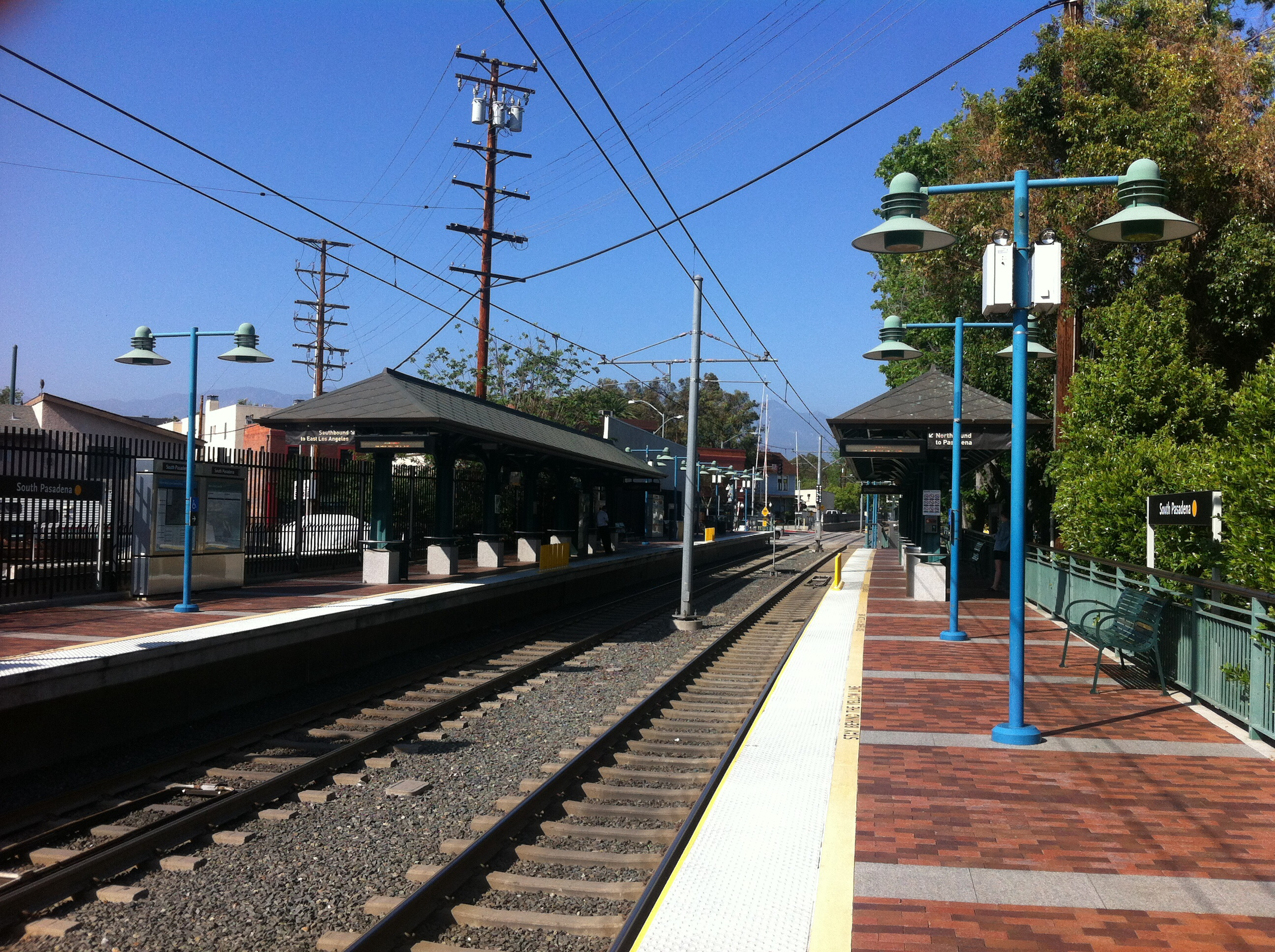 The platform view of South Pasadena Station.